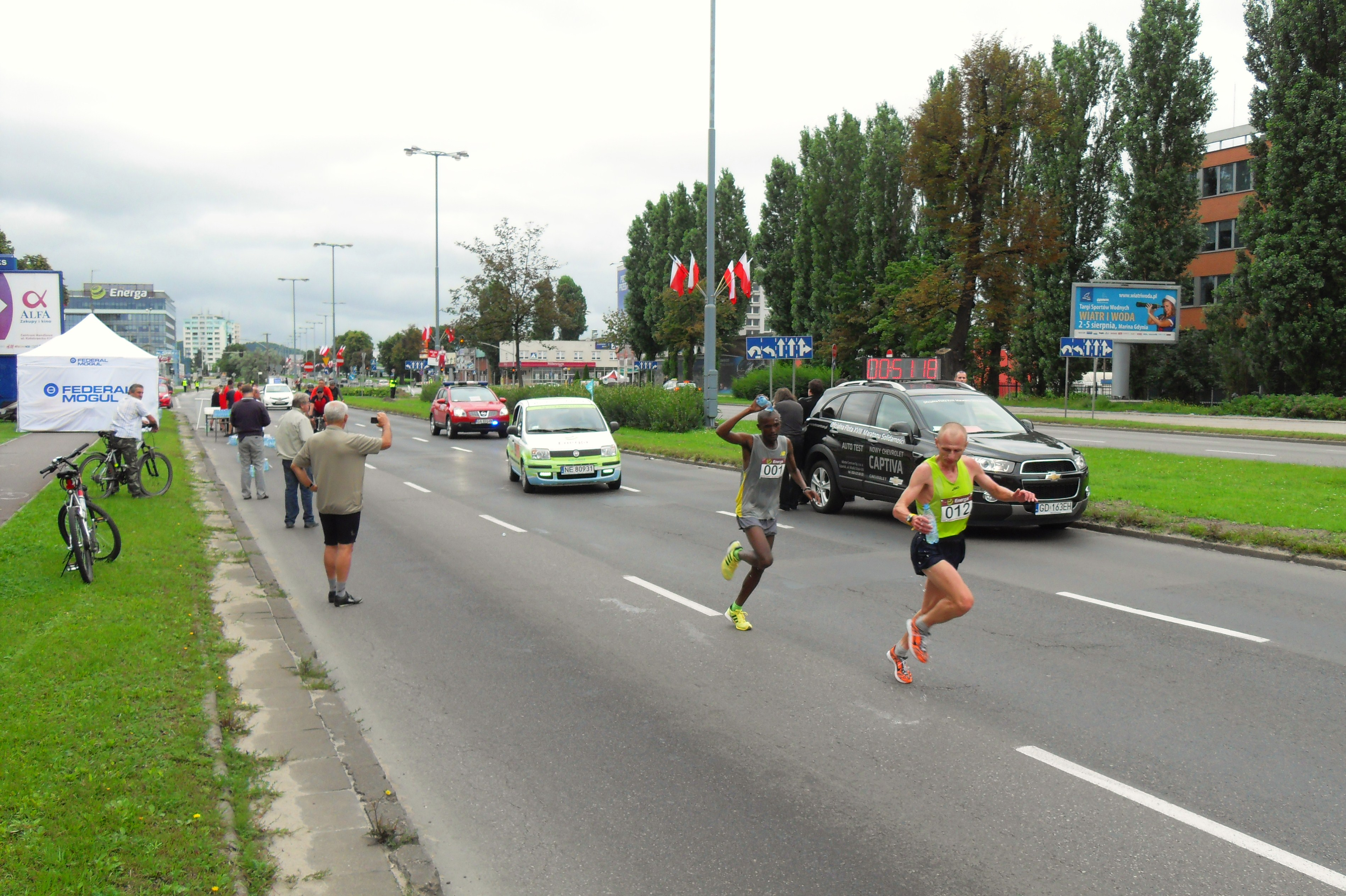 Martin Musembi Musila (001) in Gdańsk (Poland).